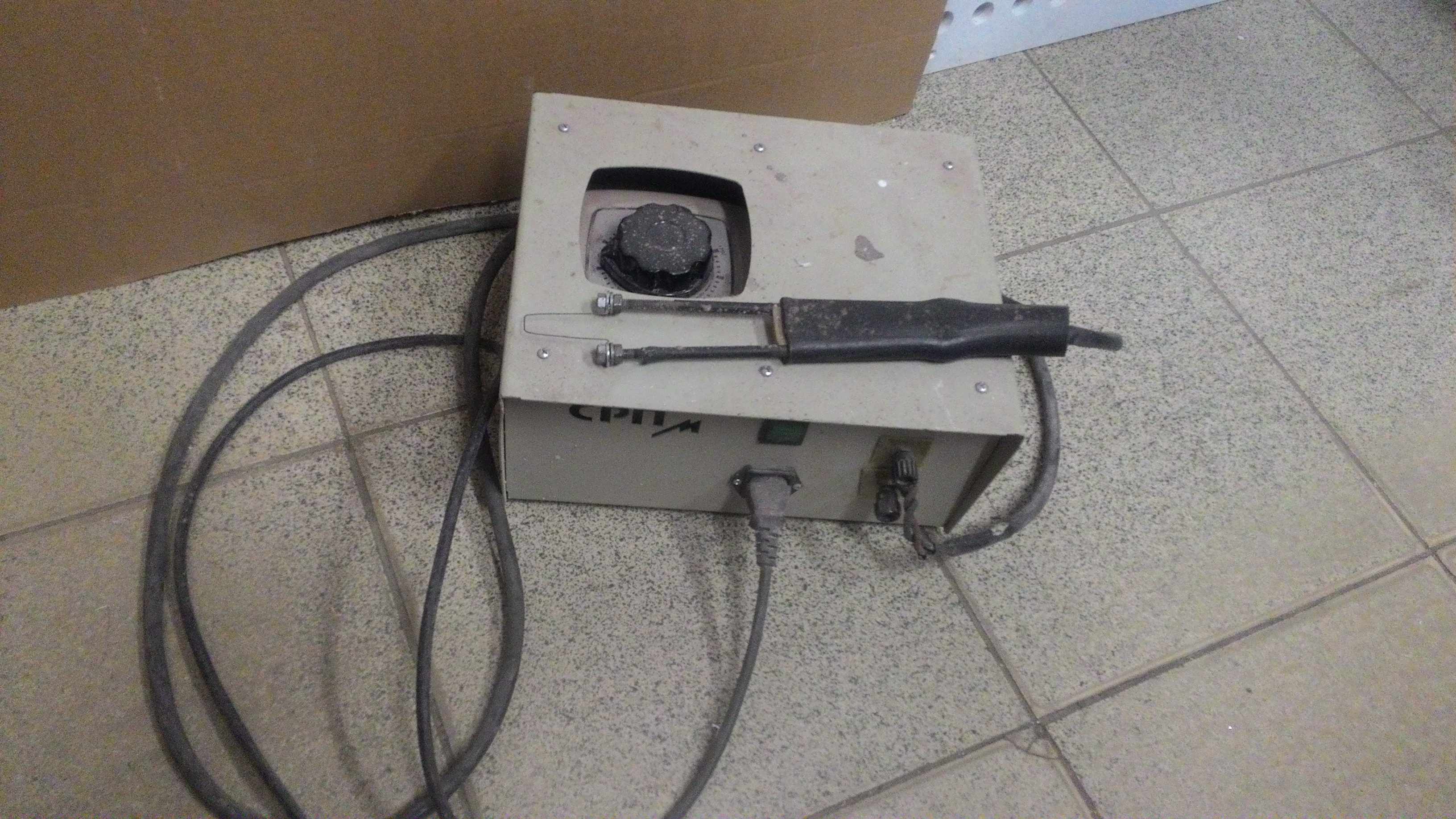 Industrial hot wire foam cutter